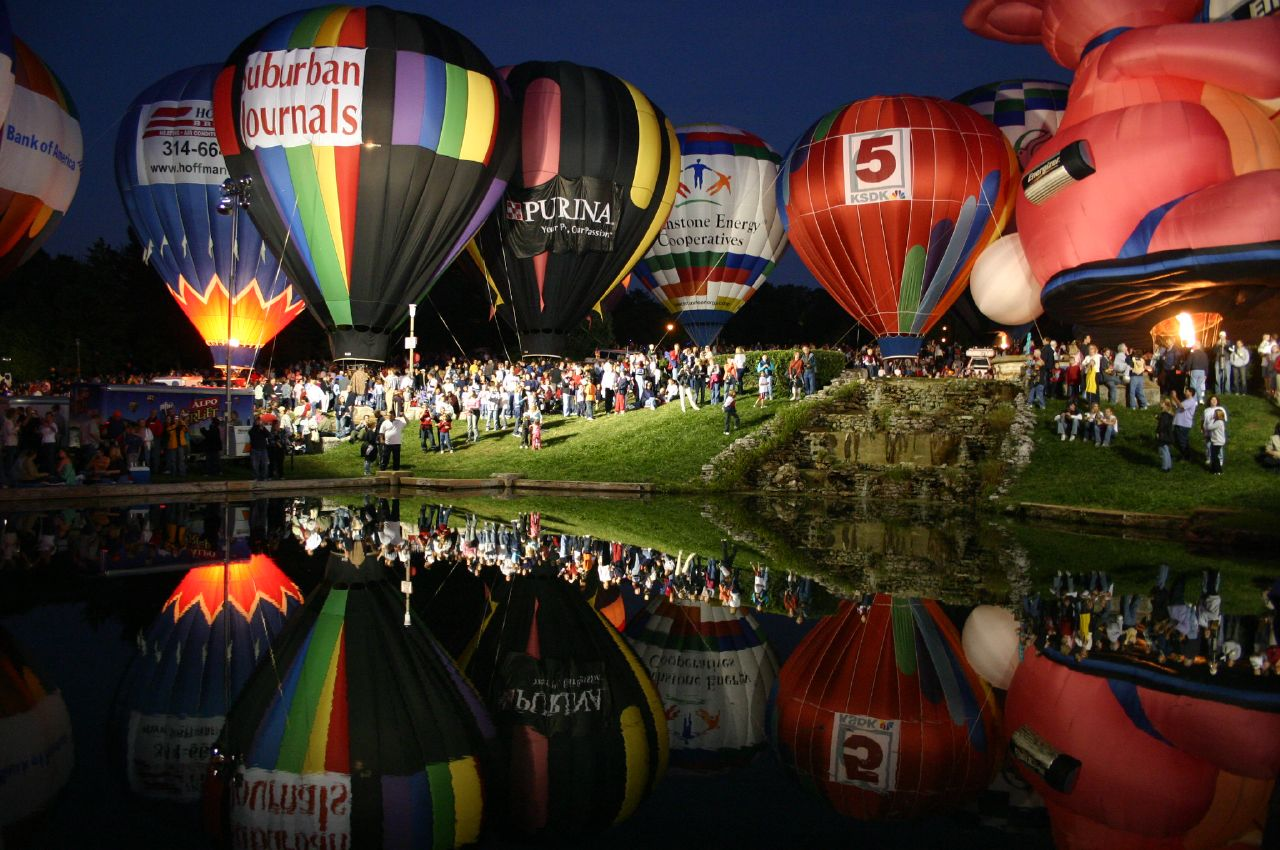 St. Louis Forest Park Balloon Glow - Sept 16, 2005. My wife thought this would be a great shot. Turned out it was! I need to give credit for taking this photo to my wife, Lora Clark.